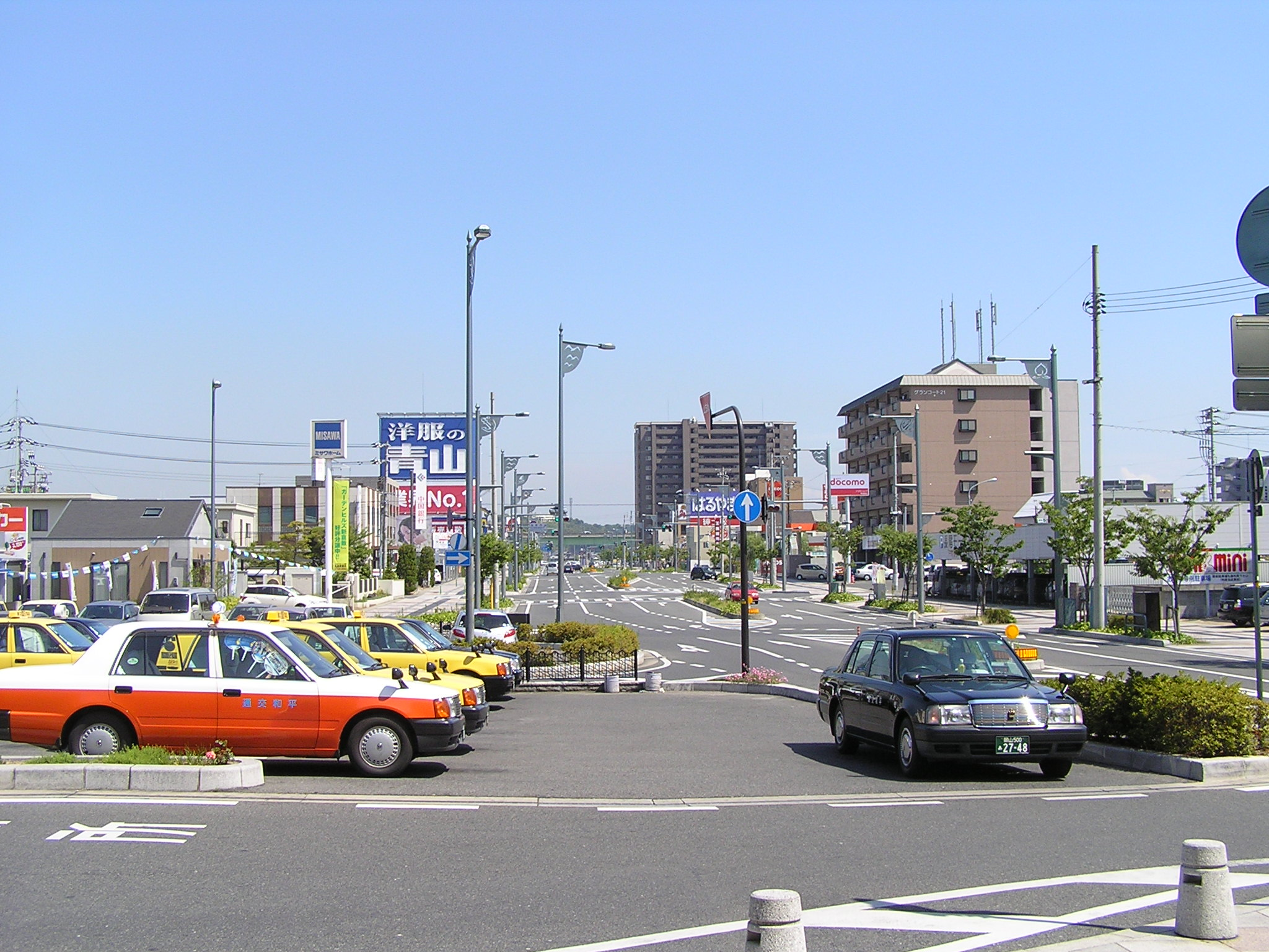 Appearance in front of Shin-Kurashiki Station